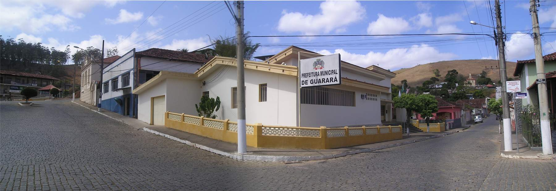 Vista panorâmica do prédio da Prefeitura do município de Guarará-MG